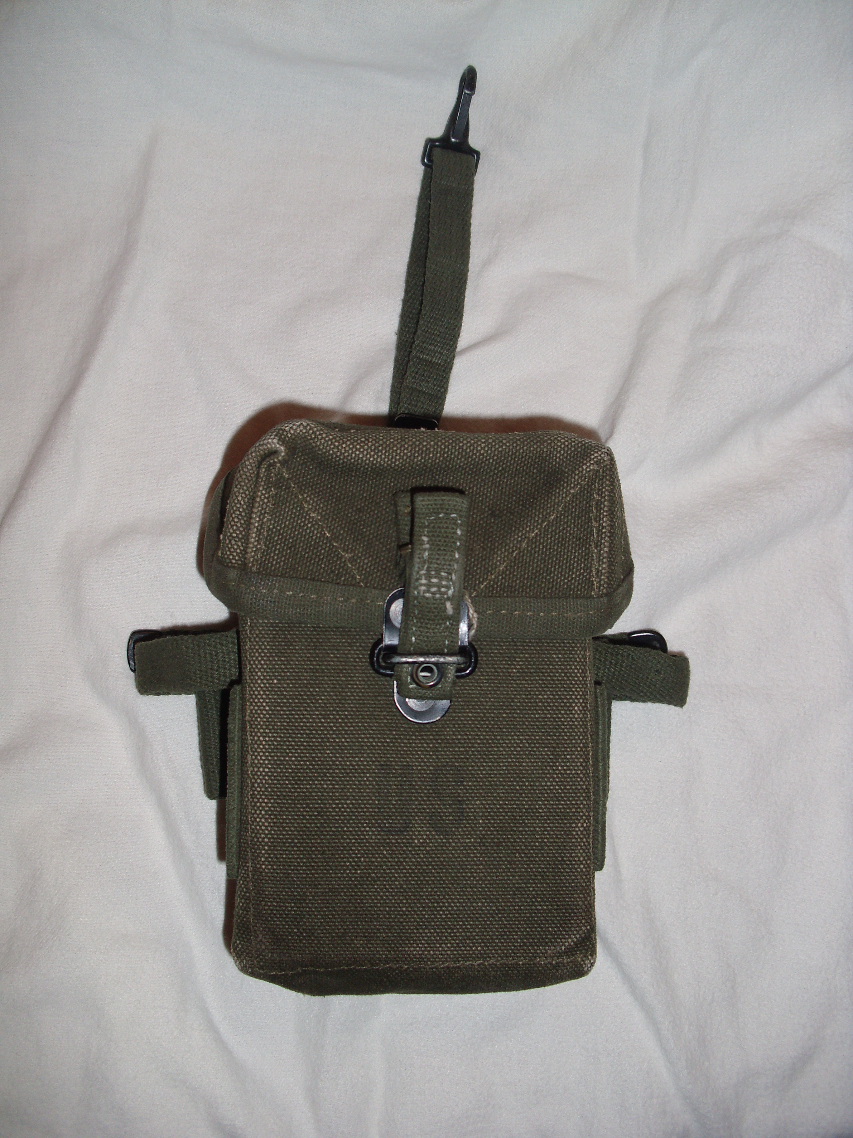 Case, ammunition small arms, universal